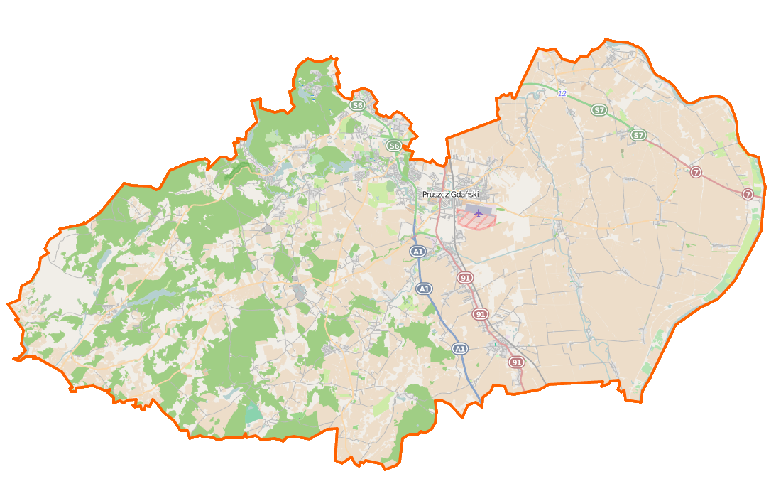 Map of Powiat gdański, Poland This map of Powiat gdański was created from OpenStreetMap project data, collected by the community. This map may be incomplete, and may contain errors. Don't rely solely on it for navigation.